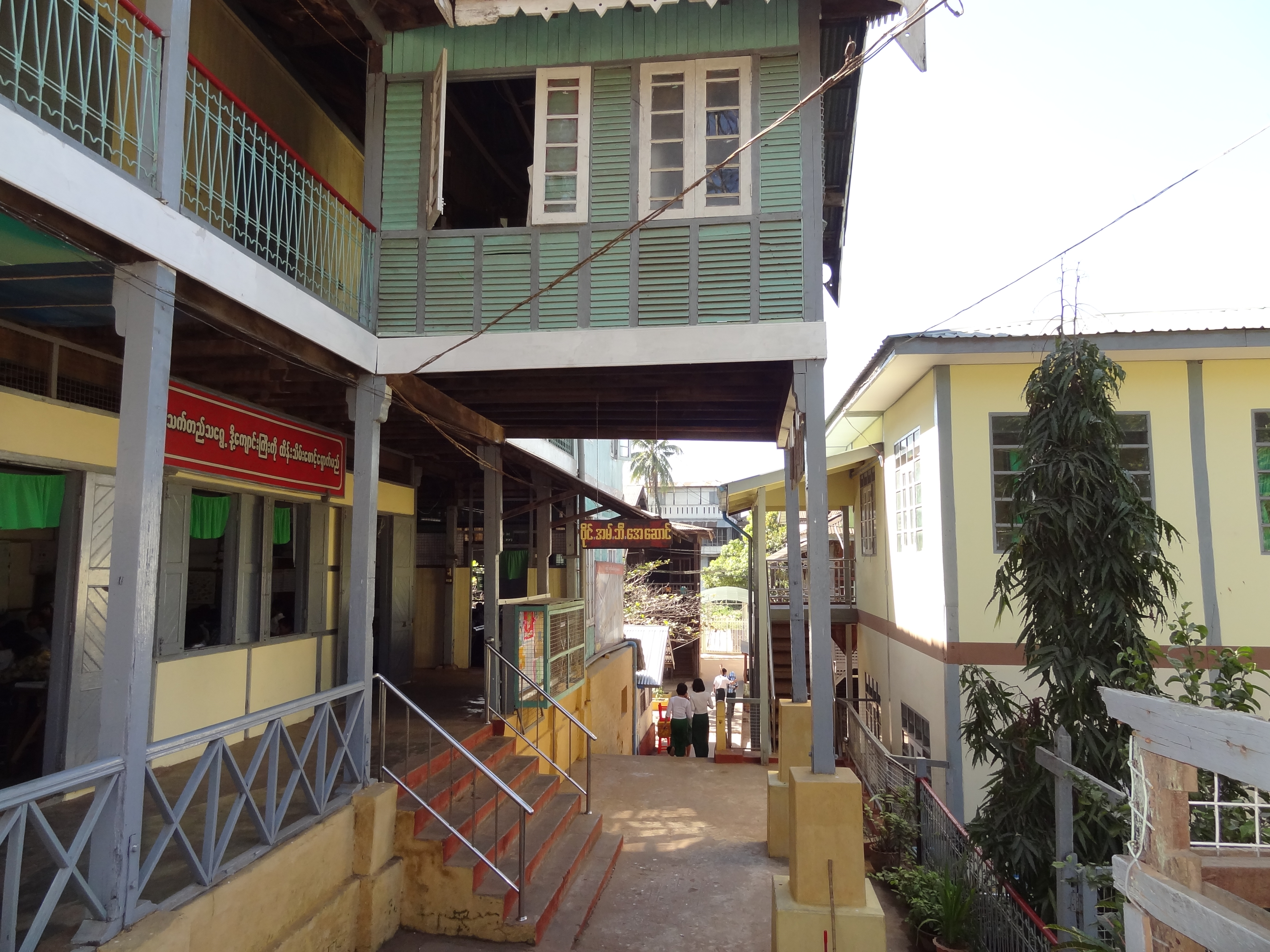 မြန်မာဘာသာ: YMBA building is the first building of the school. It is maintained as National heritage.